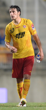 Ivan Vukovic